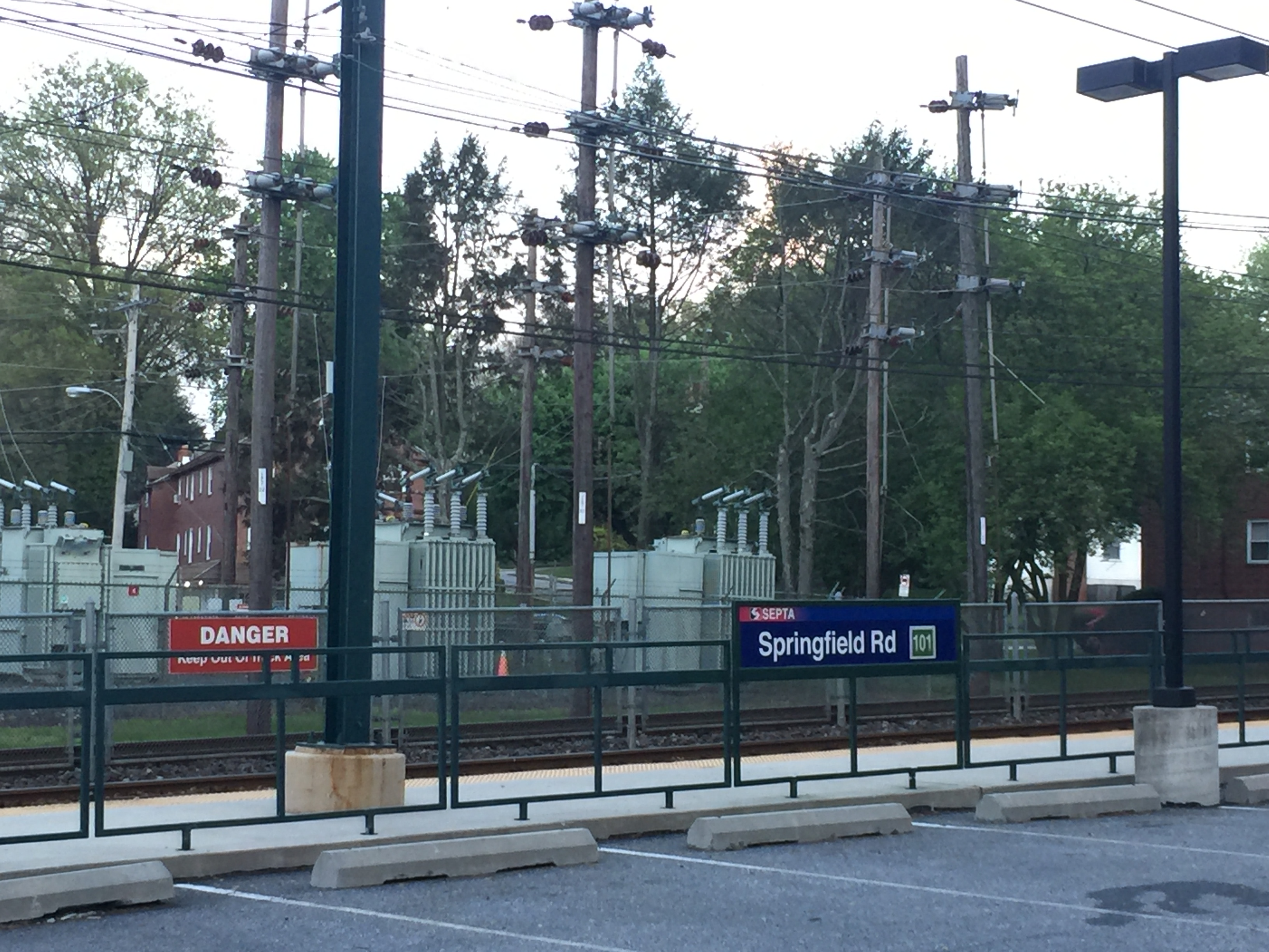 Springfield Road station